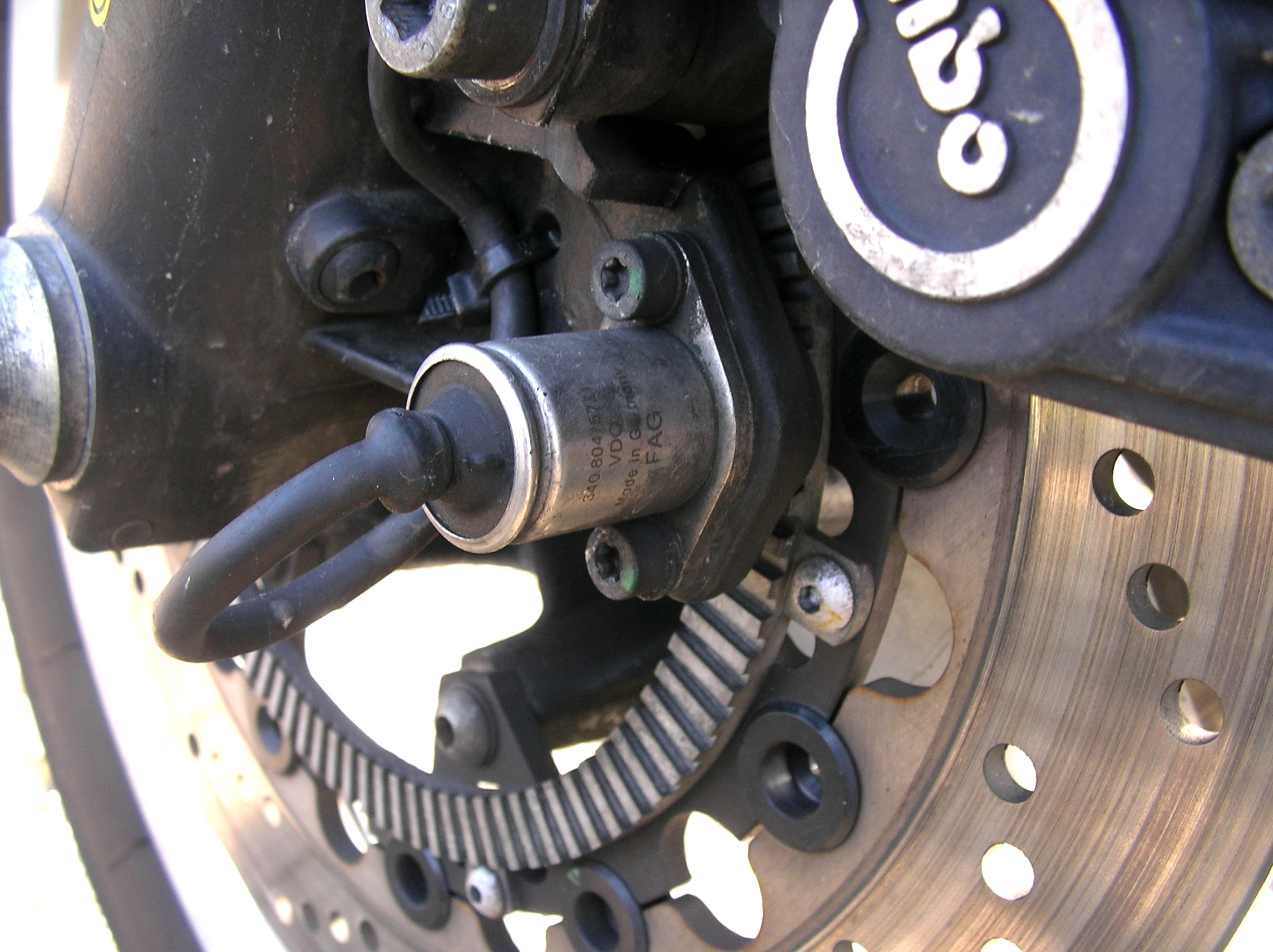 Front ABS sensor of BMW K 1100 LT SE, Bj. 1994